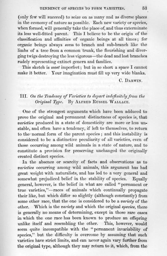 Alfred Russel Wallace: On the Tendency of Varieties to Depart Indefinitely from the Original Type - first Page